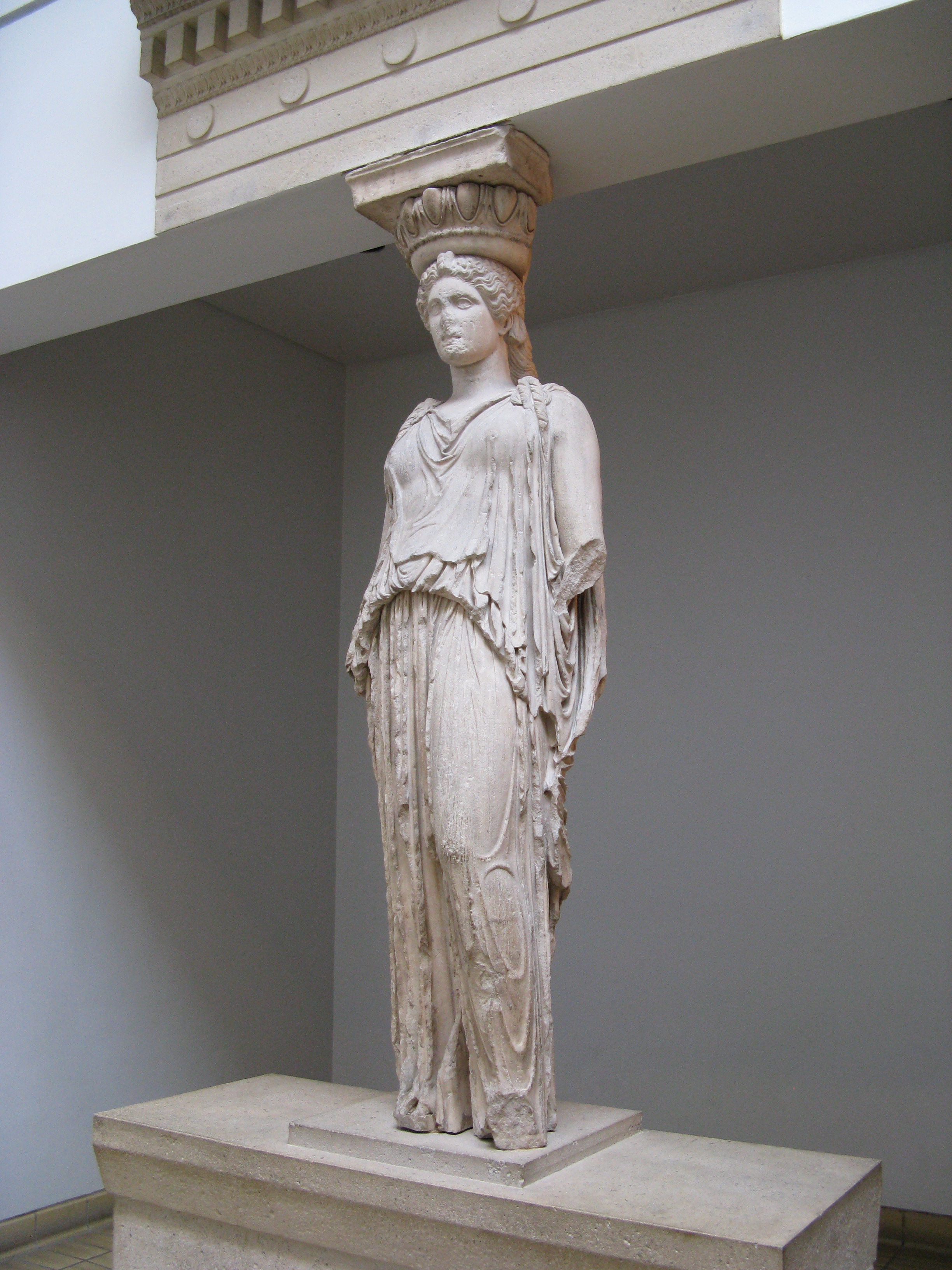 Caryatid from the Erechtheion in Athens. Marble, Greek artwork, ca. 420 BC.